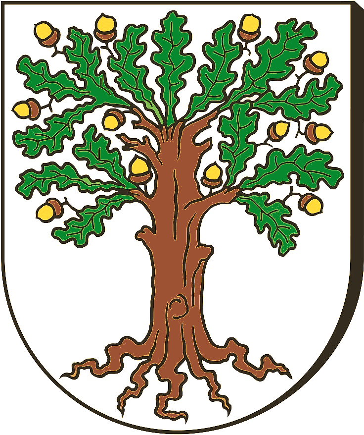 Coat of arms of the Town Pohle in Lower Saxony, Germany.